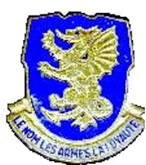 Emblem of the 81st Fighter Group (postwar USAAF)